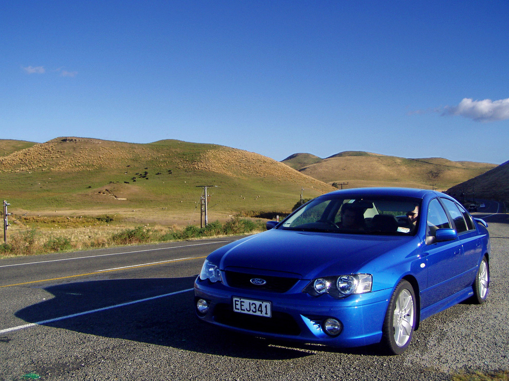 2007 Ford Falcon (BF II) XR6 sedan. Photographed in New Zealand.